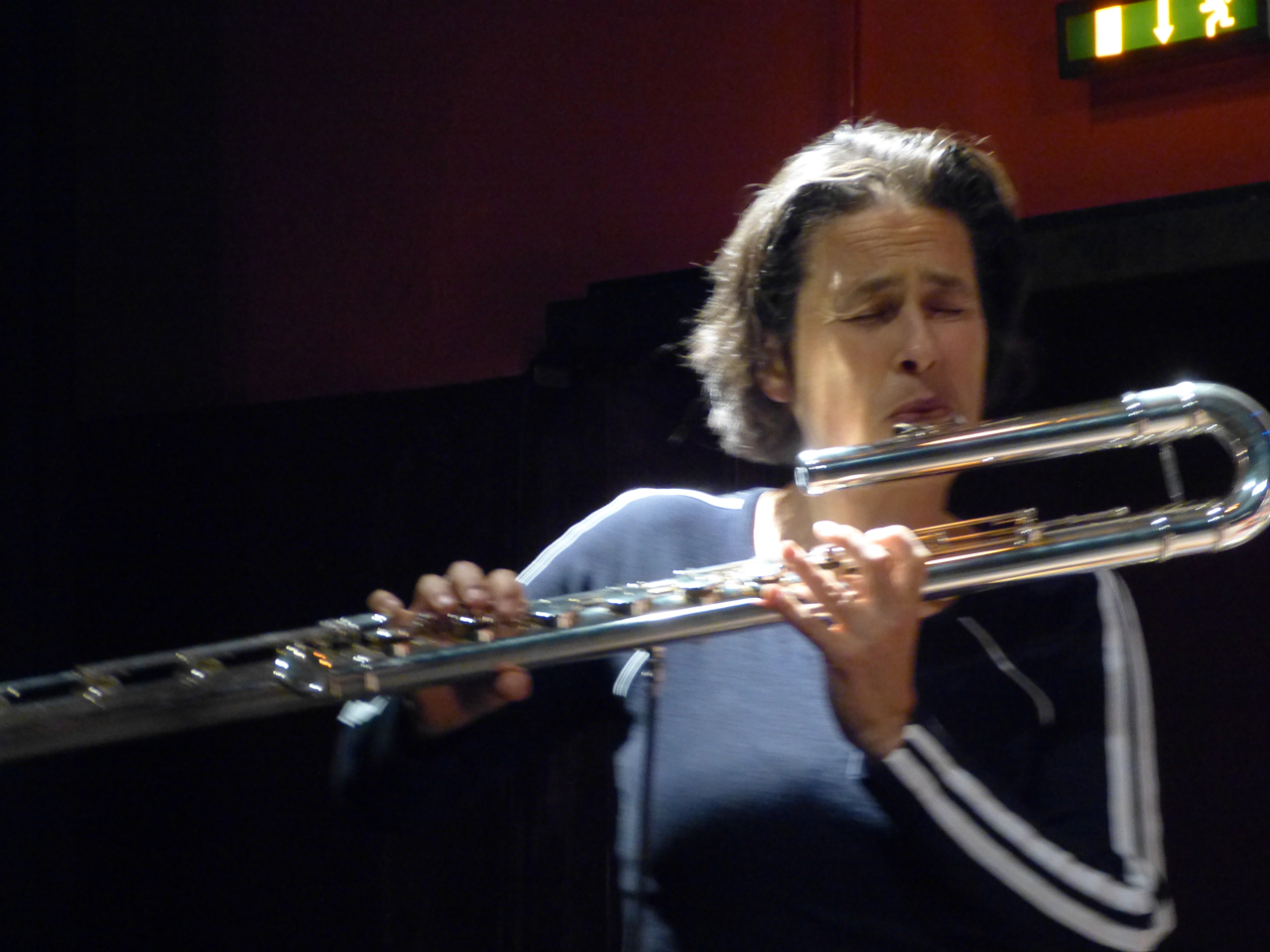 Angelika Sheridan within the Peter Kowald Memorial at Stadtgarten Köln, Germany, September 21st, 2012